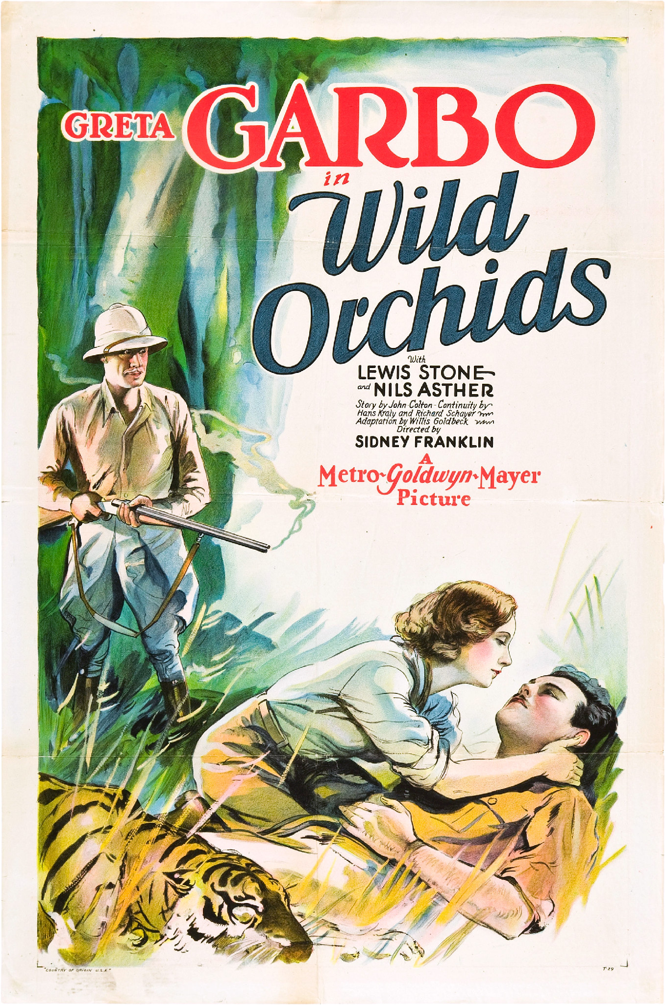 Poster for the 1929 film Wild Orchids. The item has no copyright markings on it as can be seen in the links above. At bottom left is Country of origin USA. At bottom right is T-29.